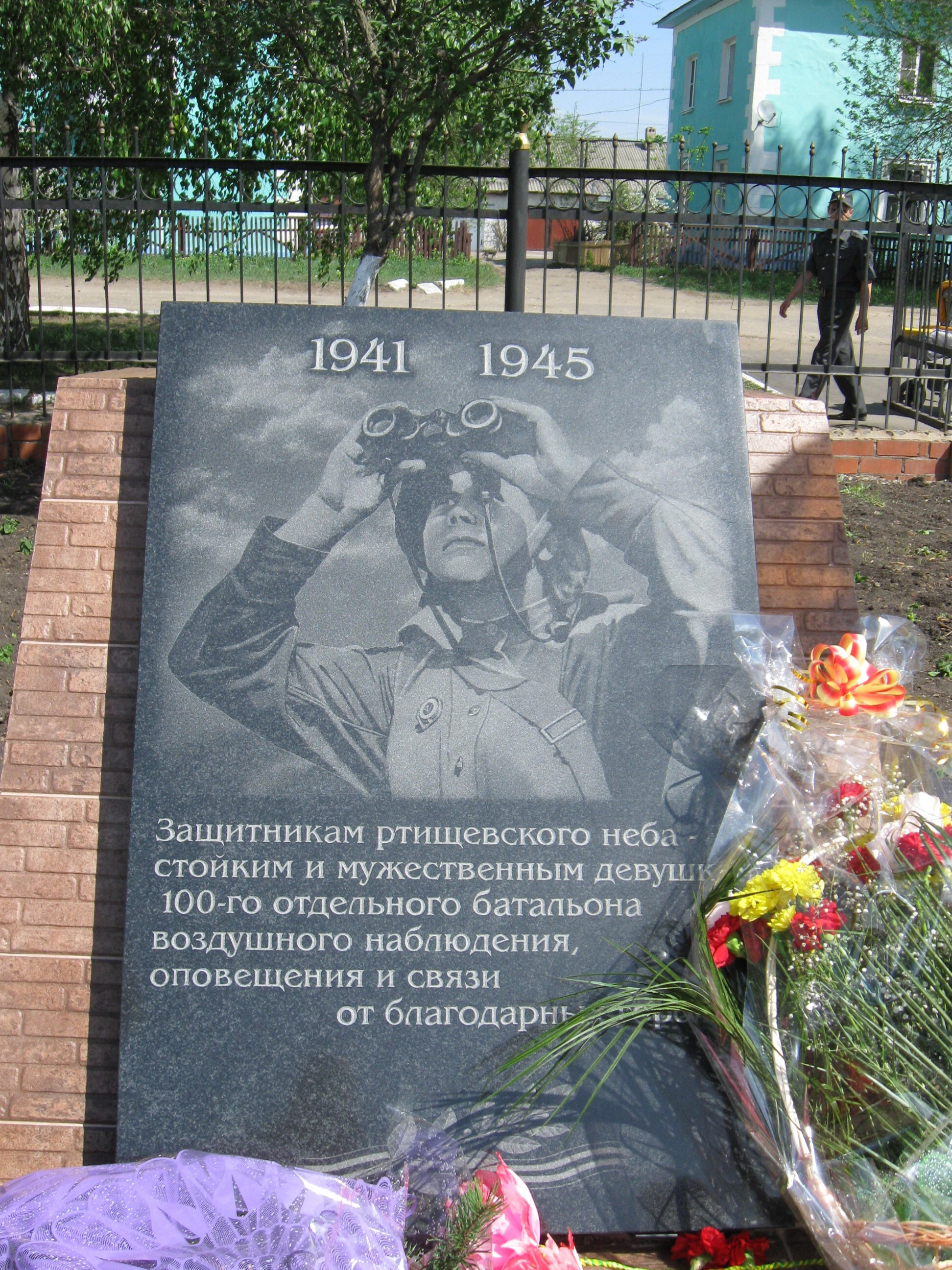 The memorial board devoted to 100 batallion ASNC (Rtishchevo)